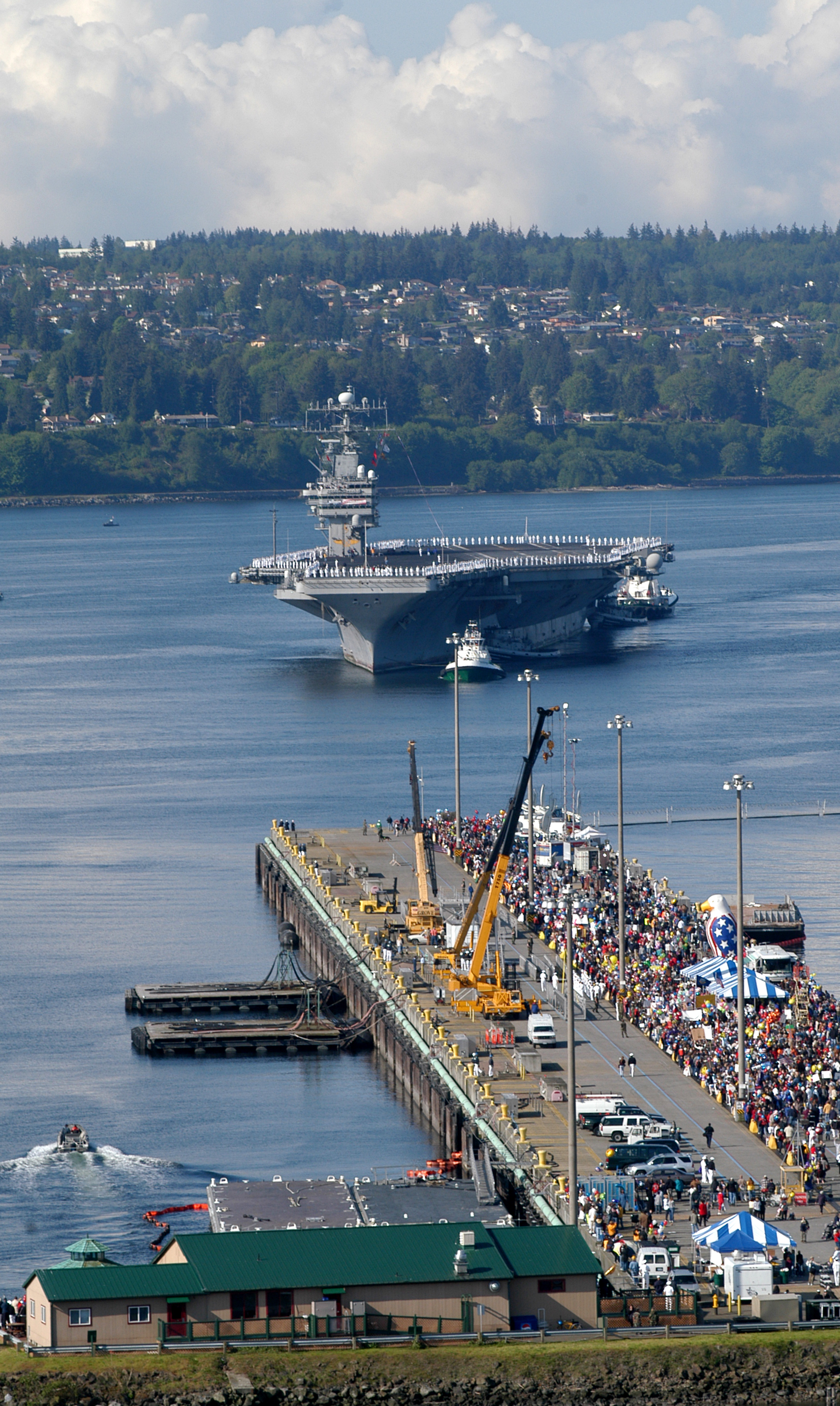 Everett, Wash. (May 5, 2003) -- The aircraft carrier USS Abraham Lincoln (CVN 72) returns home from nearly a ten-month deployment in support of Operations Enduring Freedom and Iraqi Freedom. U.S. Navy photo by Photographer's Mate 2nd Class Michael B. W. Watkins. (RELEASED)